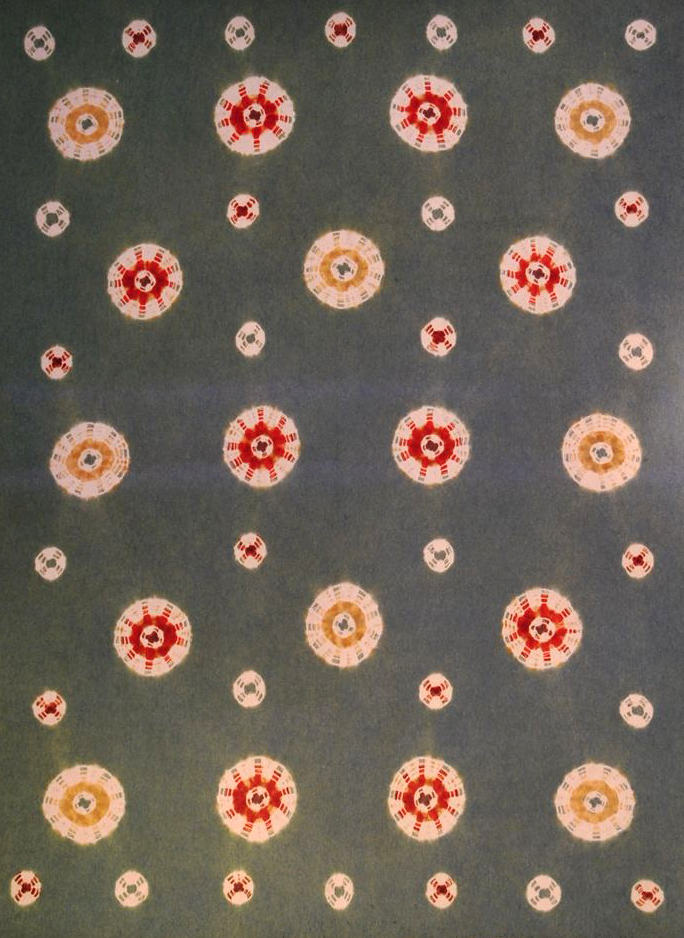 Mosen Textile Mongolia Culture - Mongolia 19th Century Felt Wool, Shibori Dyed 60 x 81 in.